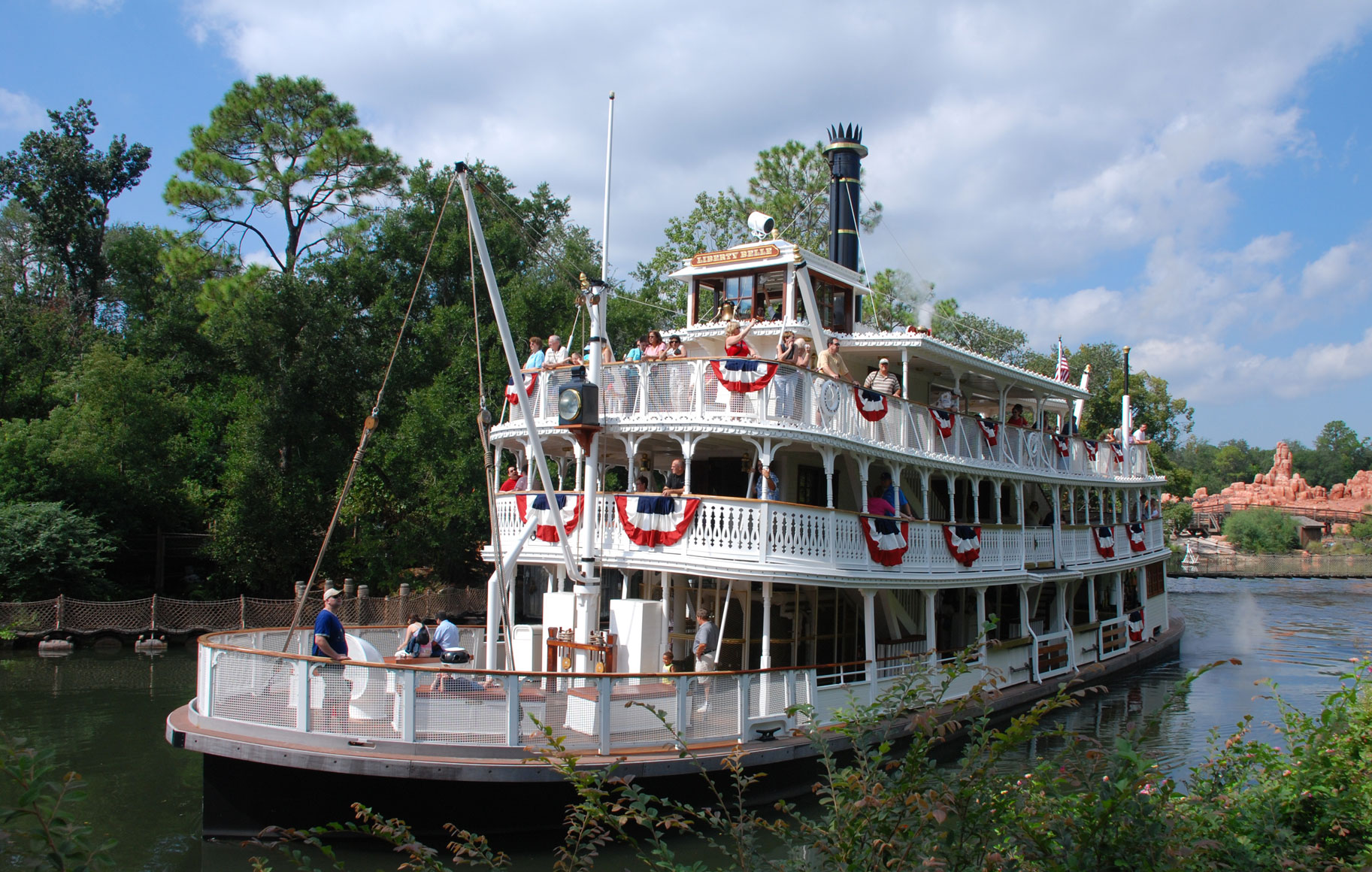 Liberty Belle Sternwheeler - Walt Disney World